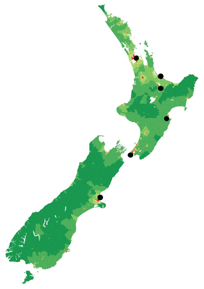 This is a map of Easy Mix frequencies, and population density.